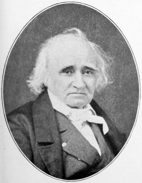 Photograph of Henry Marie Brackenridge, congressman from Pennsylvania and US District Judge in Florida